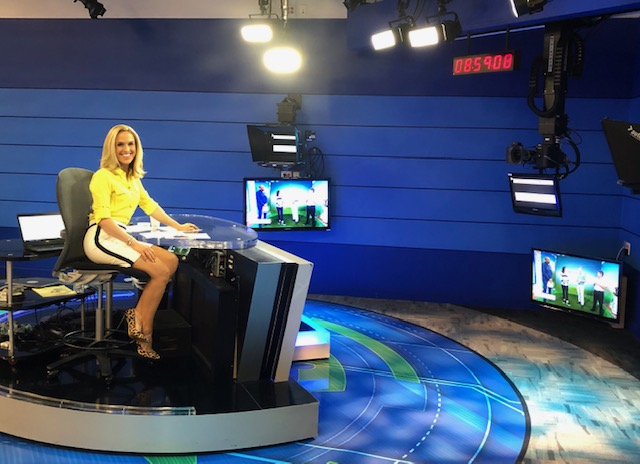 American television personality Lauren Thompson on set during a taping of Morning Drive.